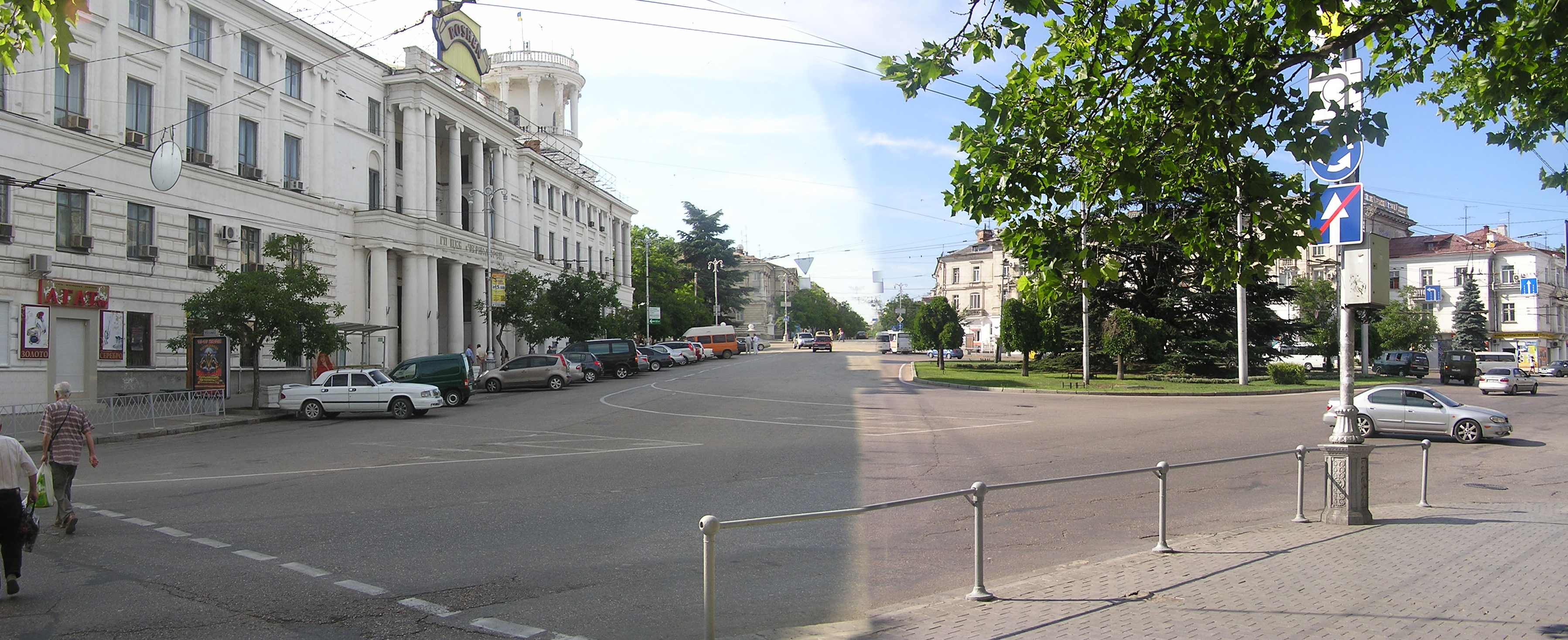 Lazarev square in Sevastopol. Ukraine